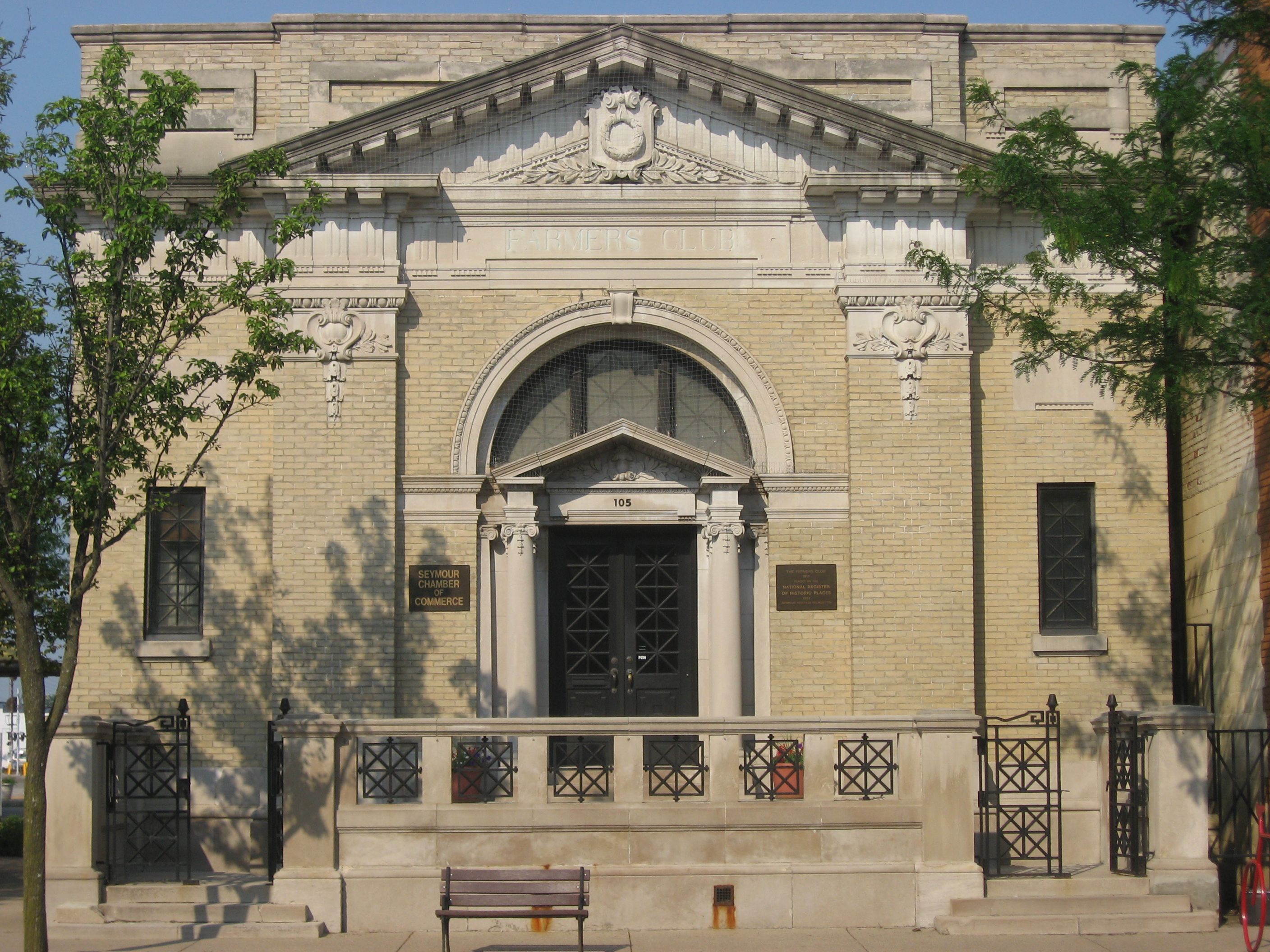 Front of the former Farmers Club, located at 105 S. Chestnut Street in Seymour, Indiana, United States. Built in 1914 and since converted into the local chamber of commerce headquarters, it is listed on the National Register of Historic Places, and it is part of a Register-listed historic district, the Seymour Commercial Historic District.